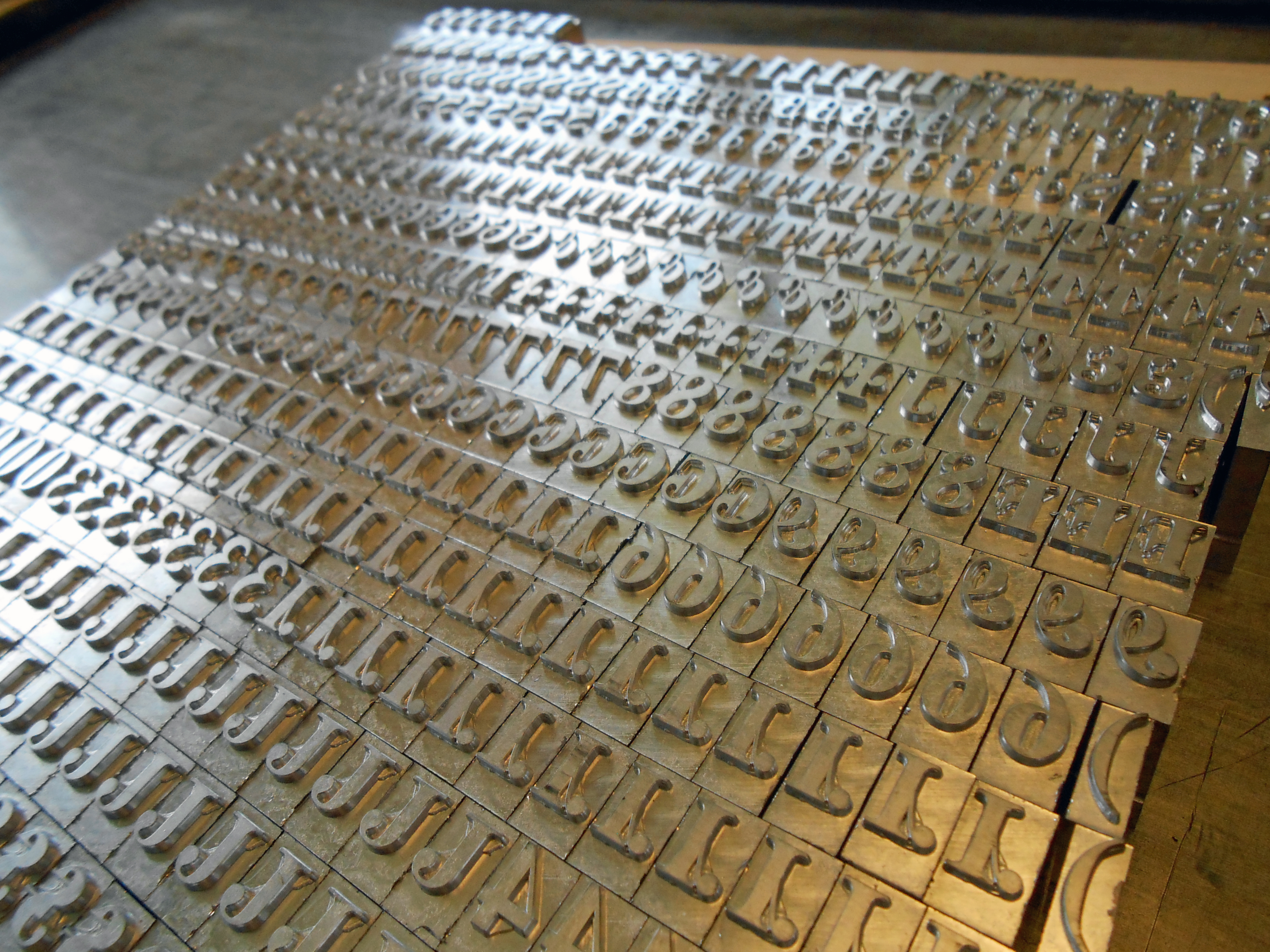 A close up view of the 36 pt Cherokee syllabary printing type. Syllabary mixed with standard numbers. Photographed at Southwestern Community College, Bryson City, NC.